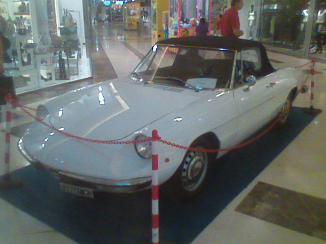 an italian spider 1300 (1972)